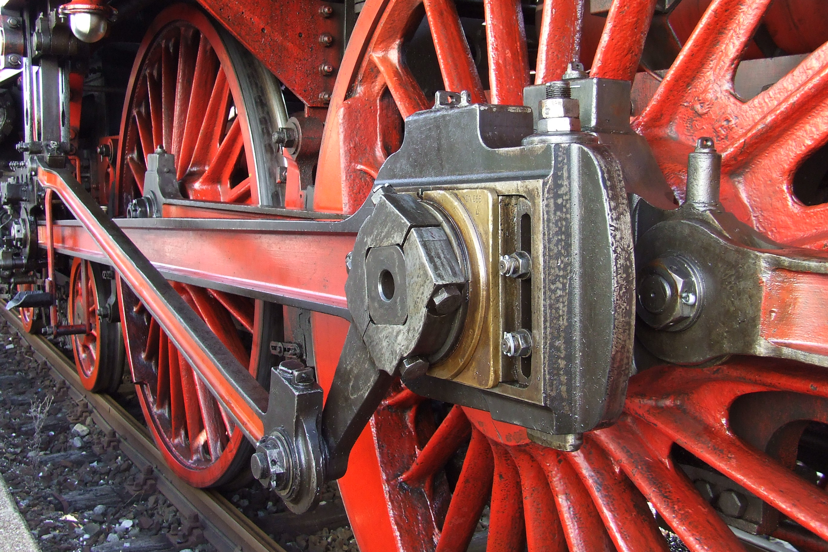 Main rods of a DRG Class 01 locomotive from 1928 (01 066). Bayerisches Eisenbahnmuseum, Germany.